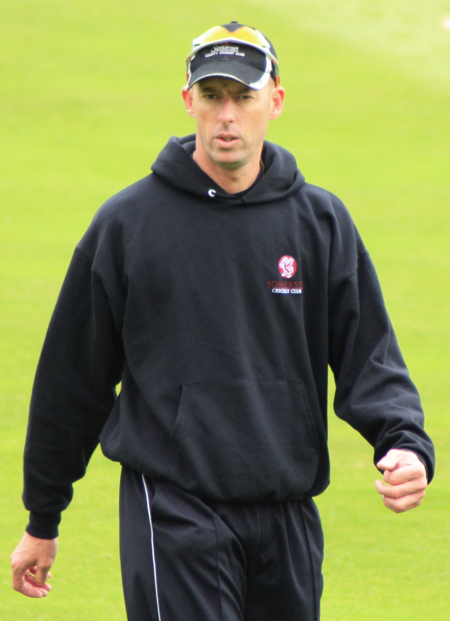 Charl Willoughby warming up before the Clydesdale Bank 40 fixture between Somerset and the Unicorns at the County Ground, Taunton. Although named on the teamsheet, Willoughby did not play in the match, with Damien Wright replacing him at the toss.